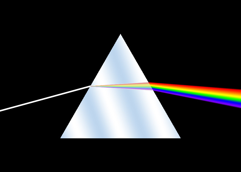 Diagram of a dispersion prism.